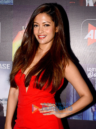 Riya Sen at the success bash of ALTBalaji, Jun 3, 2017